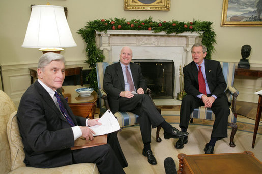 U.S. Senators John McCain (R-AZ) and John Warner (R-VA) with President George W. Bush. White House photo 2005 meeting on interrogation.